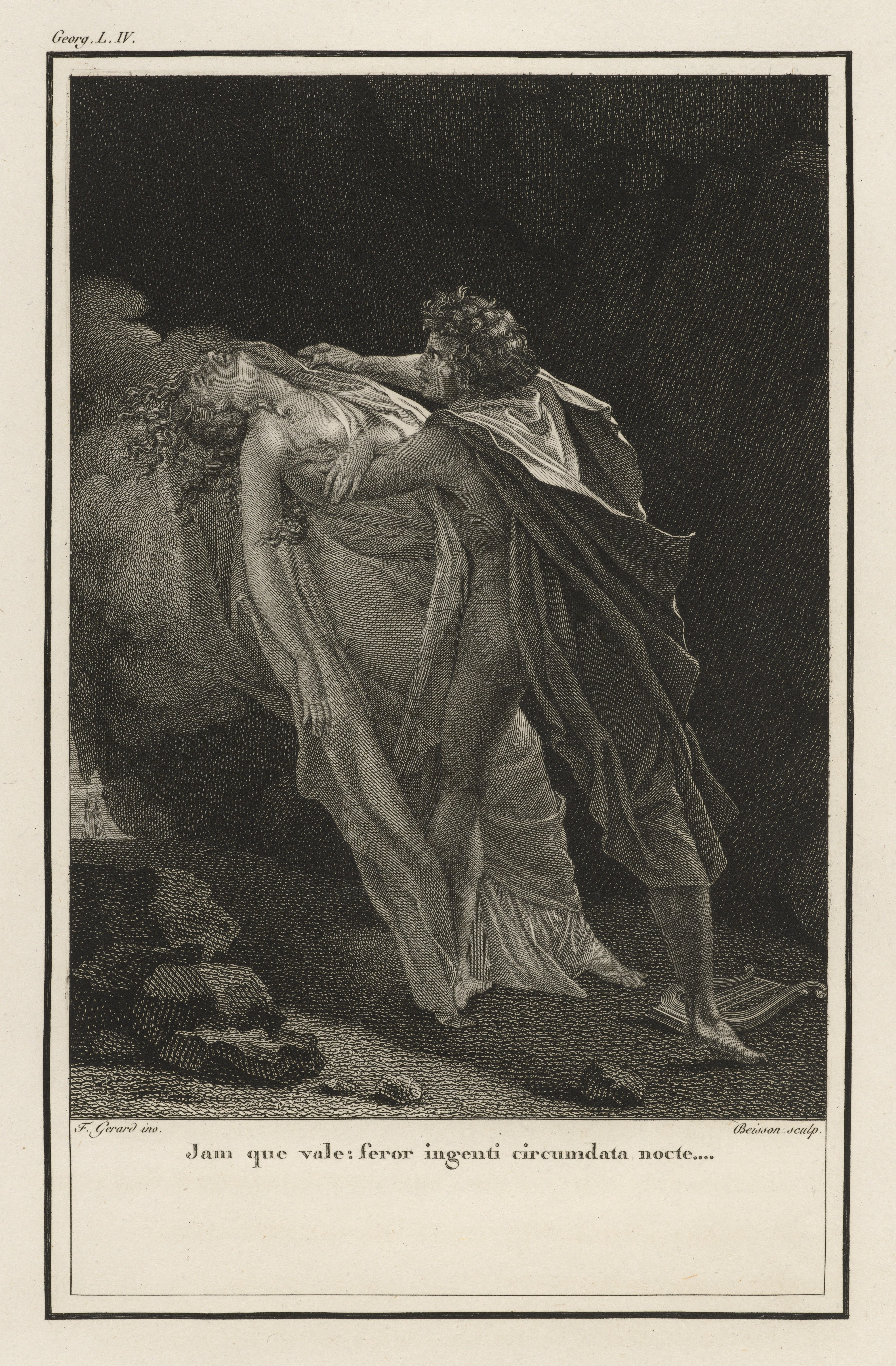 Illustration from "Georgics" section, from Bucolica, Georgica, et Aeneis by Virgil, published in Paris, 1798. Caption: "Jam que vale: feror ingenti circumdata nocte..." Typ 715.98.868, Houghton Library, Harvard University]